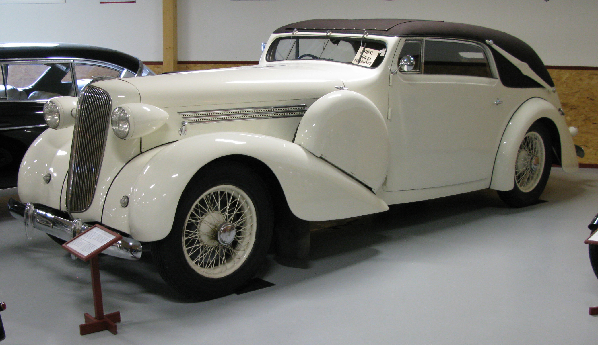 1923/1938 Berliet Type A1. This automobile was sold in Denmark in 1923. After a fire the engine was replaced by a Ford V8 and the chassis was fitted with a new body from danish Sofus Larsen bodyworks.